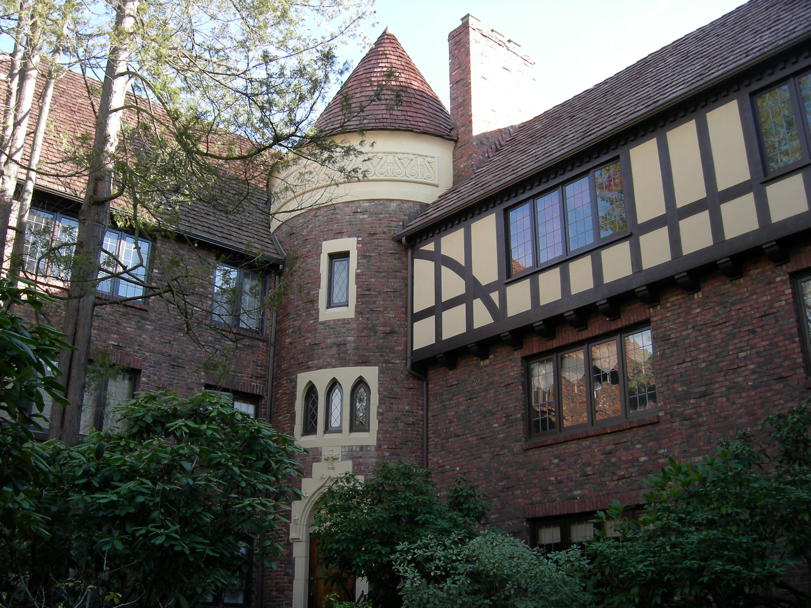 Anhalt apartment building, 1005 E. Roy Street, Seattle. The building is an official city landmark.